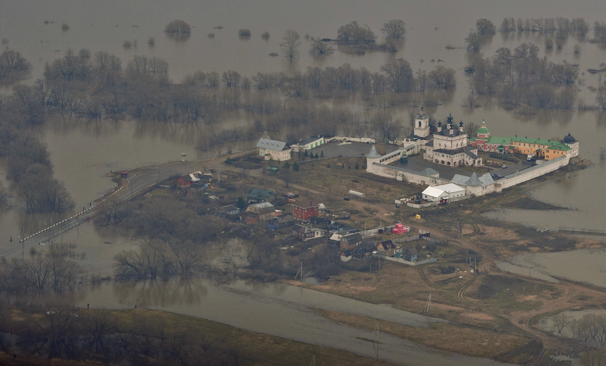 Trinity Monastery Belopesotsky